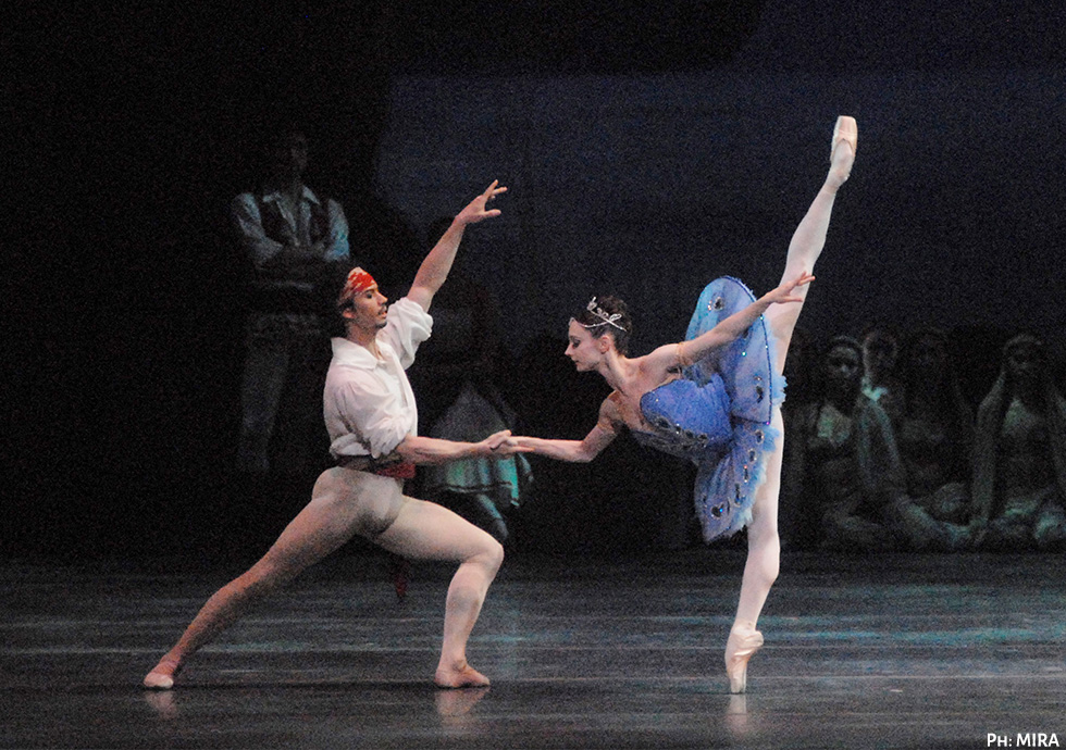 Herman Cornejo and Maria Kochetkova, at "Le Corsaire", with American Ballet Theatre. Ph: MIRA.